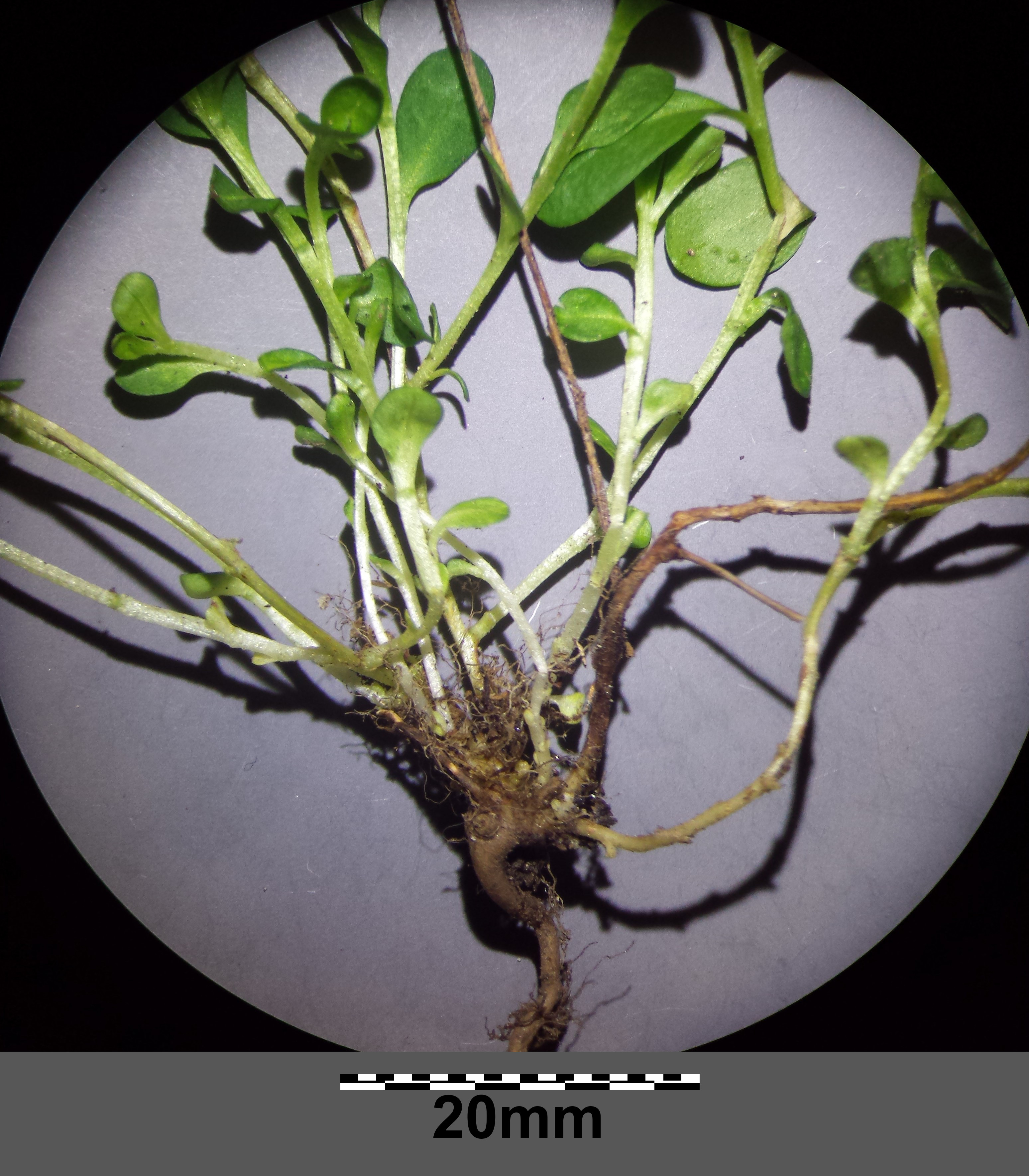 Base of stems Taxonym: Polygala vulgaris subsp. vulgaris ss Fischer et al. EfÖLS 2008 ISBN 978-3-85474-187-9 Location: nearby Riebeis, Rappottenstein, district Zwettl, Lower Austria - ca. 750 m a.s.l. Habitat: wayside